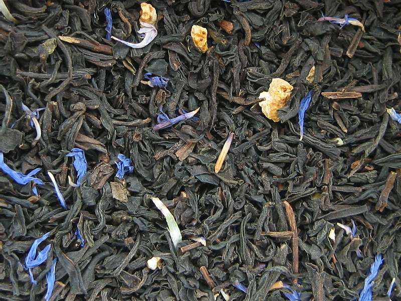 Twinings Lady Gray tea leaves